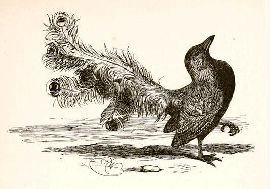 Harrison Weir's illustration of "The vain jackdaw in the peacock's feathers. Aesop's Fables (London 1884)